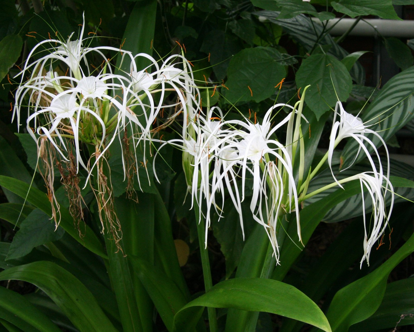 Correct id is Hymenocallis caribaea